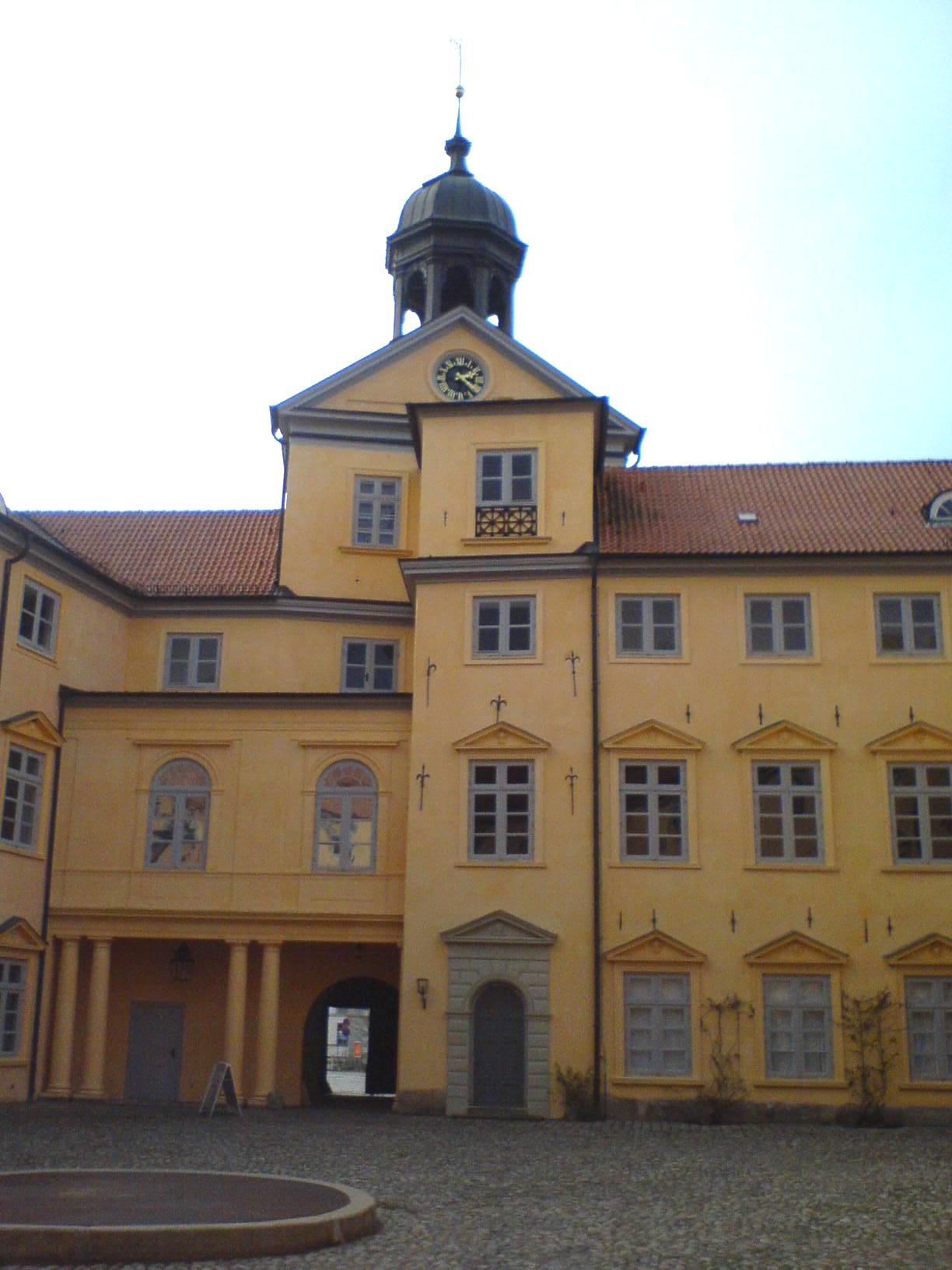 Description=Eutin,_Torturm Source=myself Date=02.2007 Author=PodracerHH 22:13, 21 January 2008 (UTC)